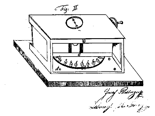 1843 - Joseph Puchberger of Retz, Austria, patents a daguerrotype panoramic camera with a hand crank driving a swing lens covering a 150 degree arc. The plates were 19 to 24 inches long.